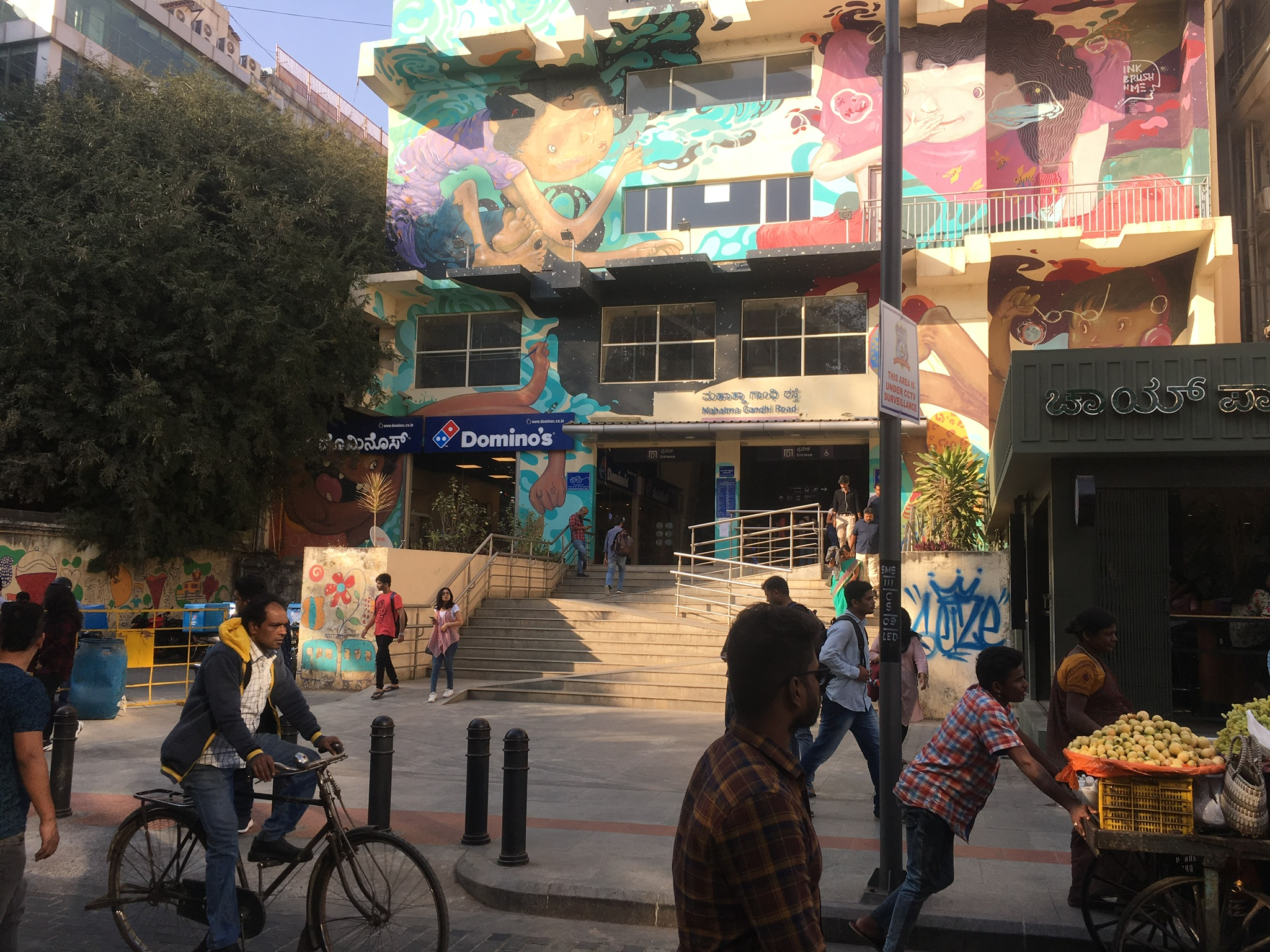 Mahatma Gandhi Road metro station (Bangalore)